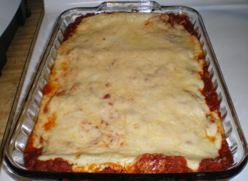 Lasanga. Tasty.